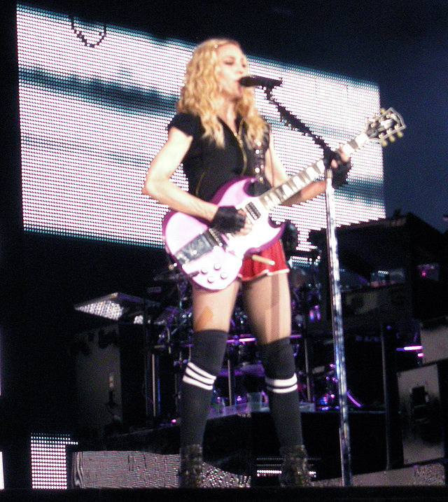 Madonna - Amsterdam ArenA - September 2, 2008